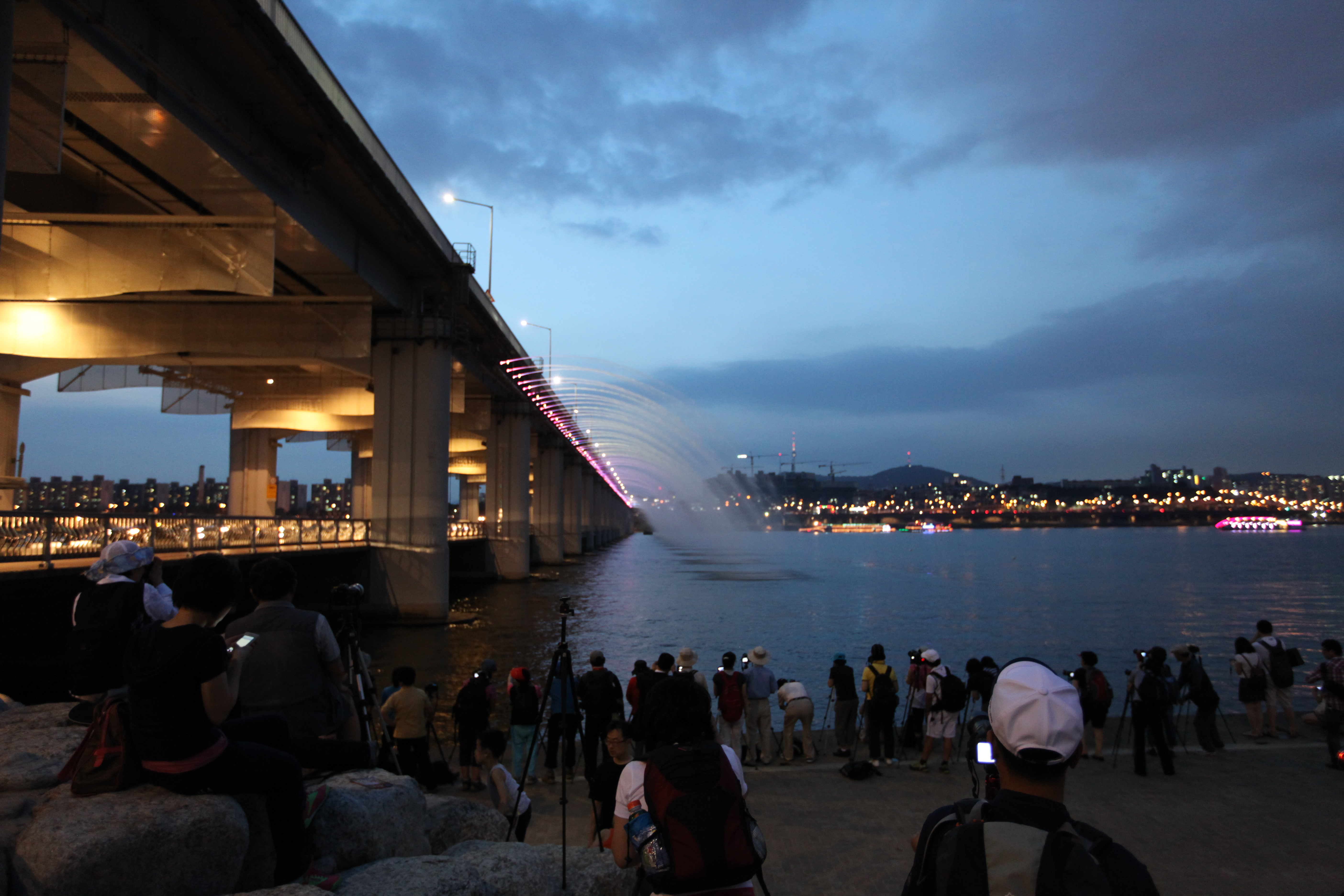 Han River, Banpo Bridge